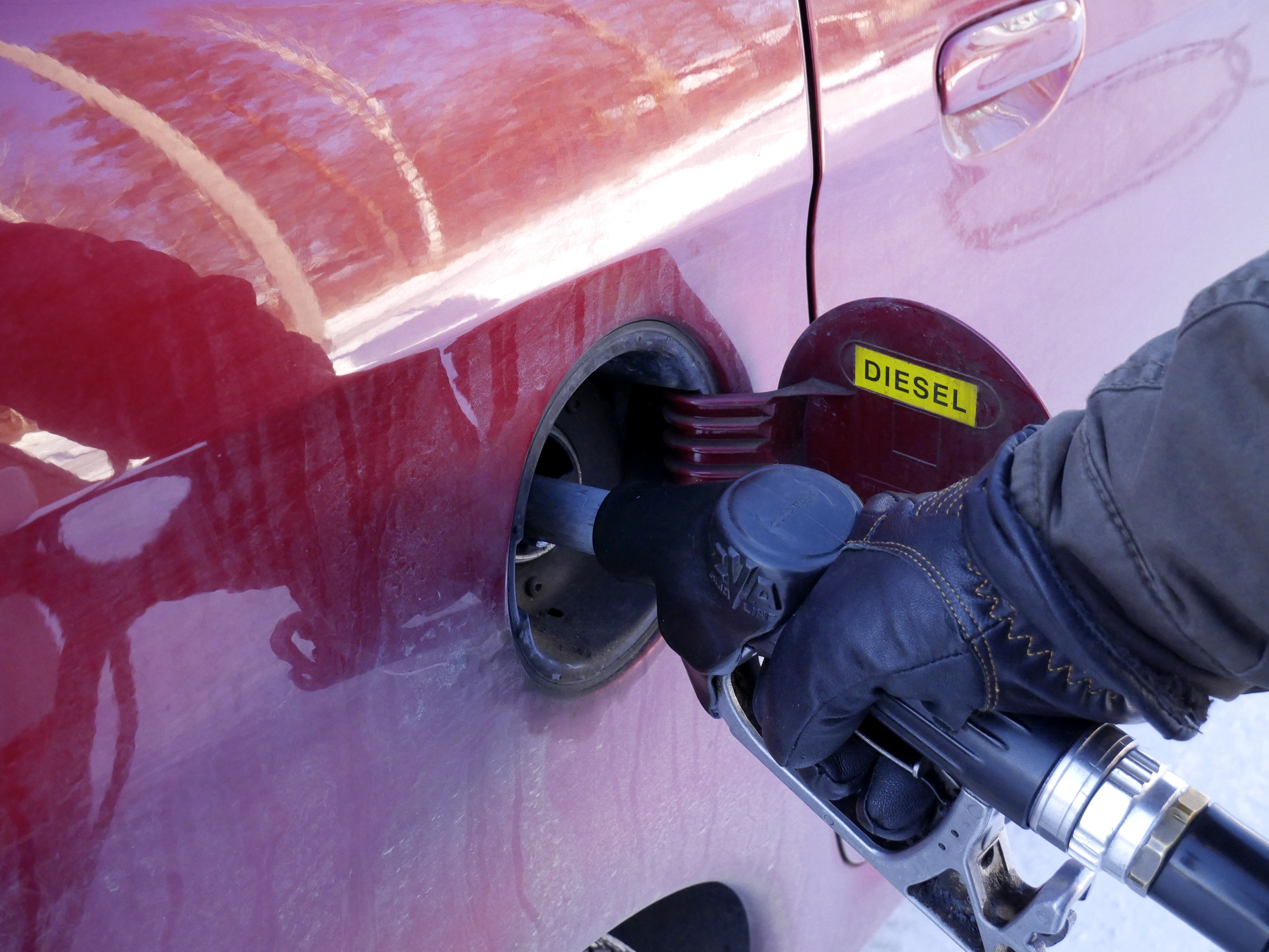 Fueling diesel car.